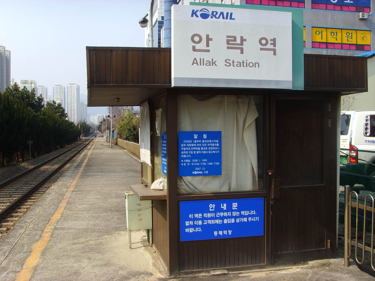 Donghaenambu Line Allak Station